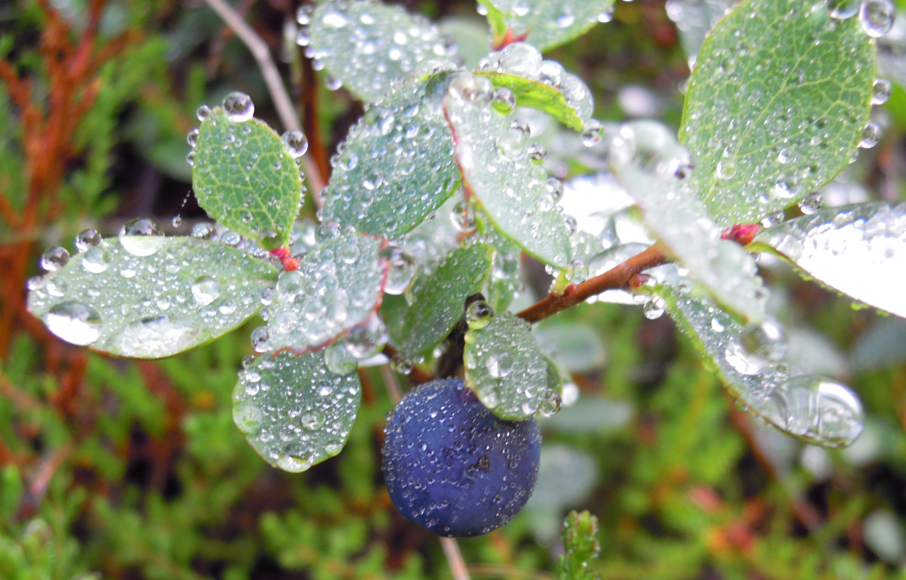 Vaccinium uliginosum (Bog Bilberry or Northern Bilberry) at Blefjell, Norway